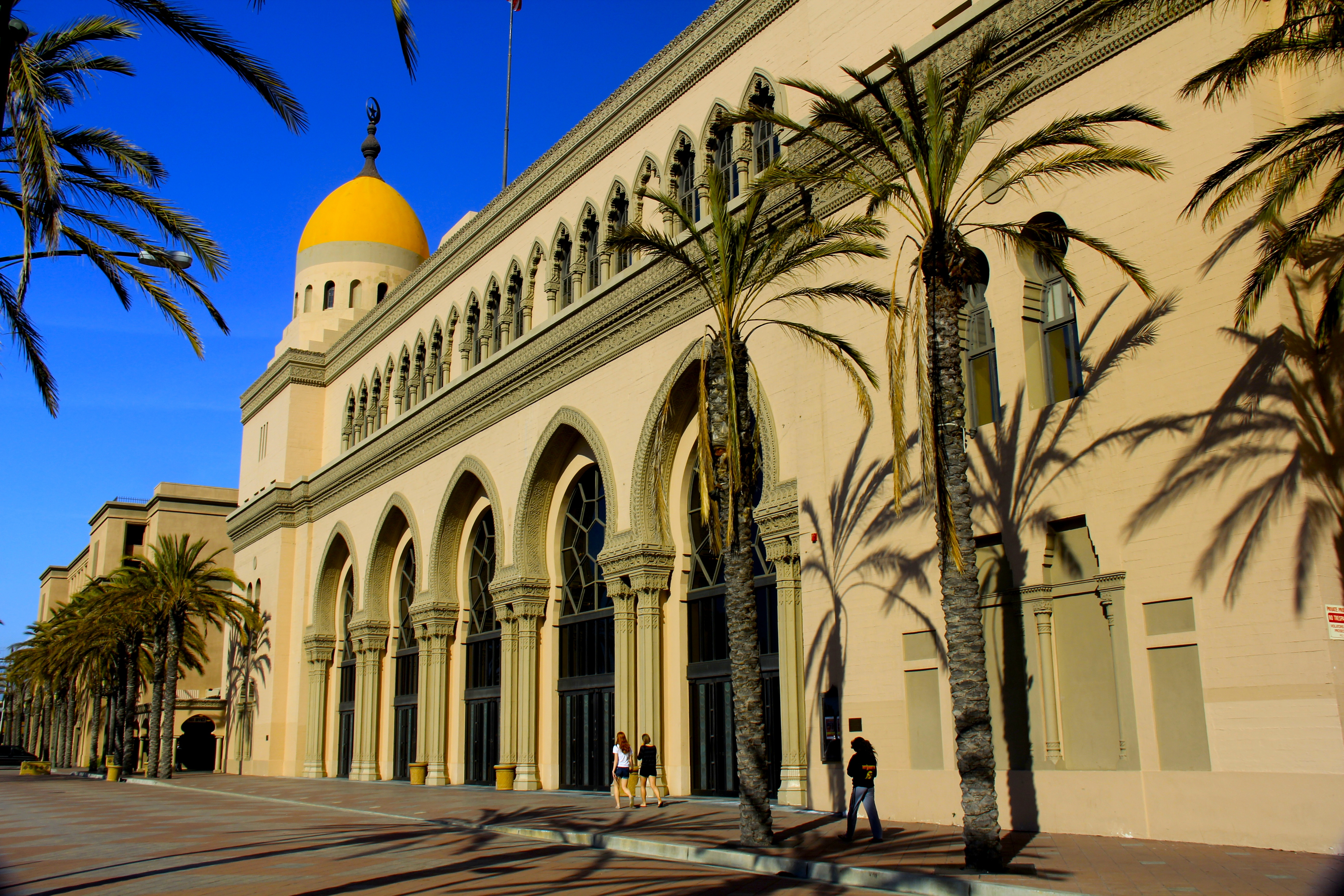 Al Malaikah Temple - Shrine Auditorium, 655 W. Jefferson Blvd. University Park